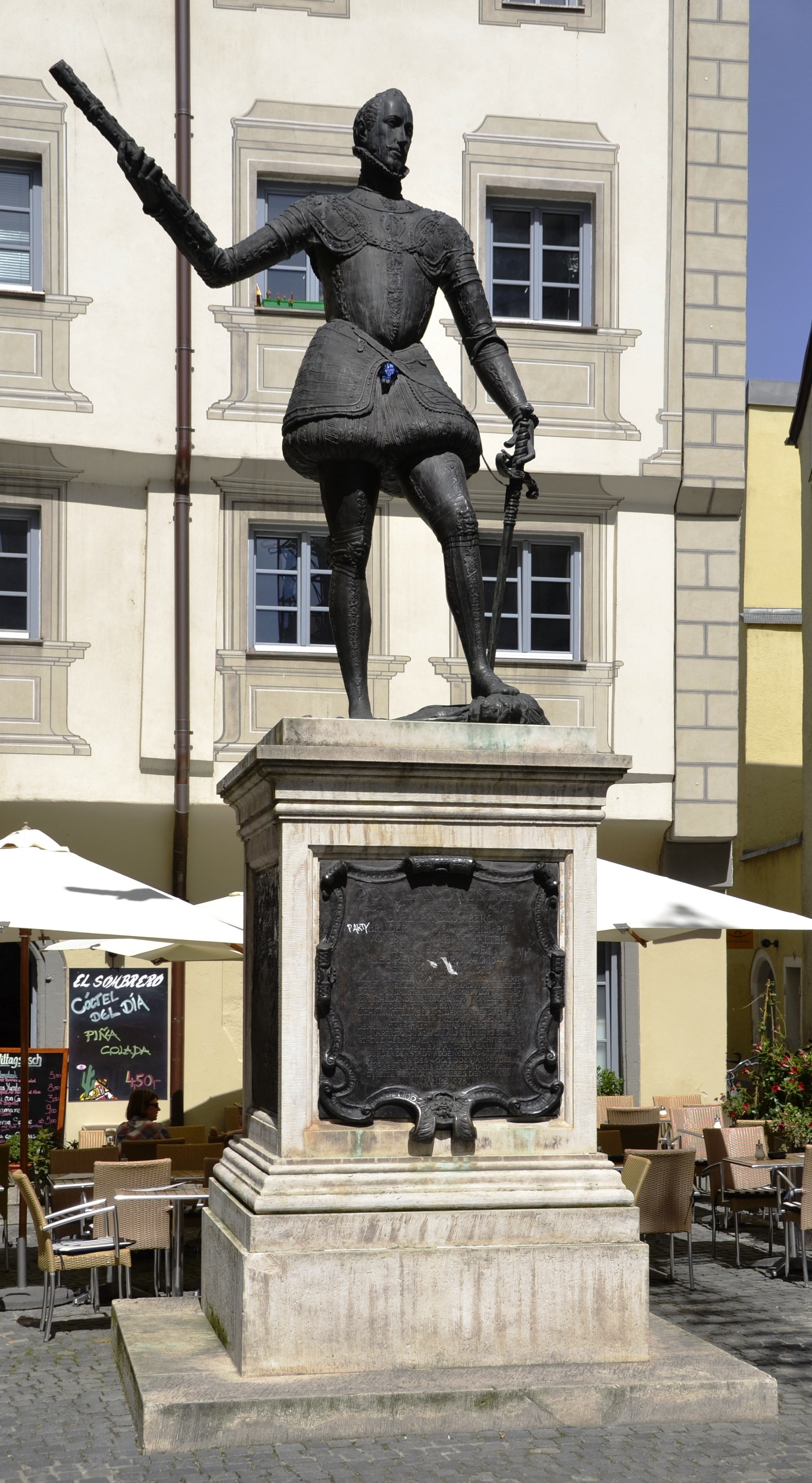 The monument to Don Juan de Austria in Regensburg, Bavaria.